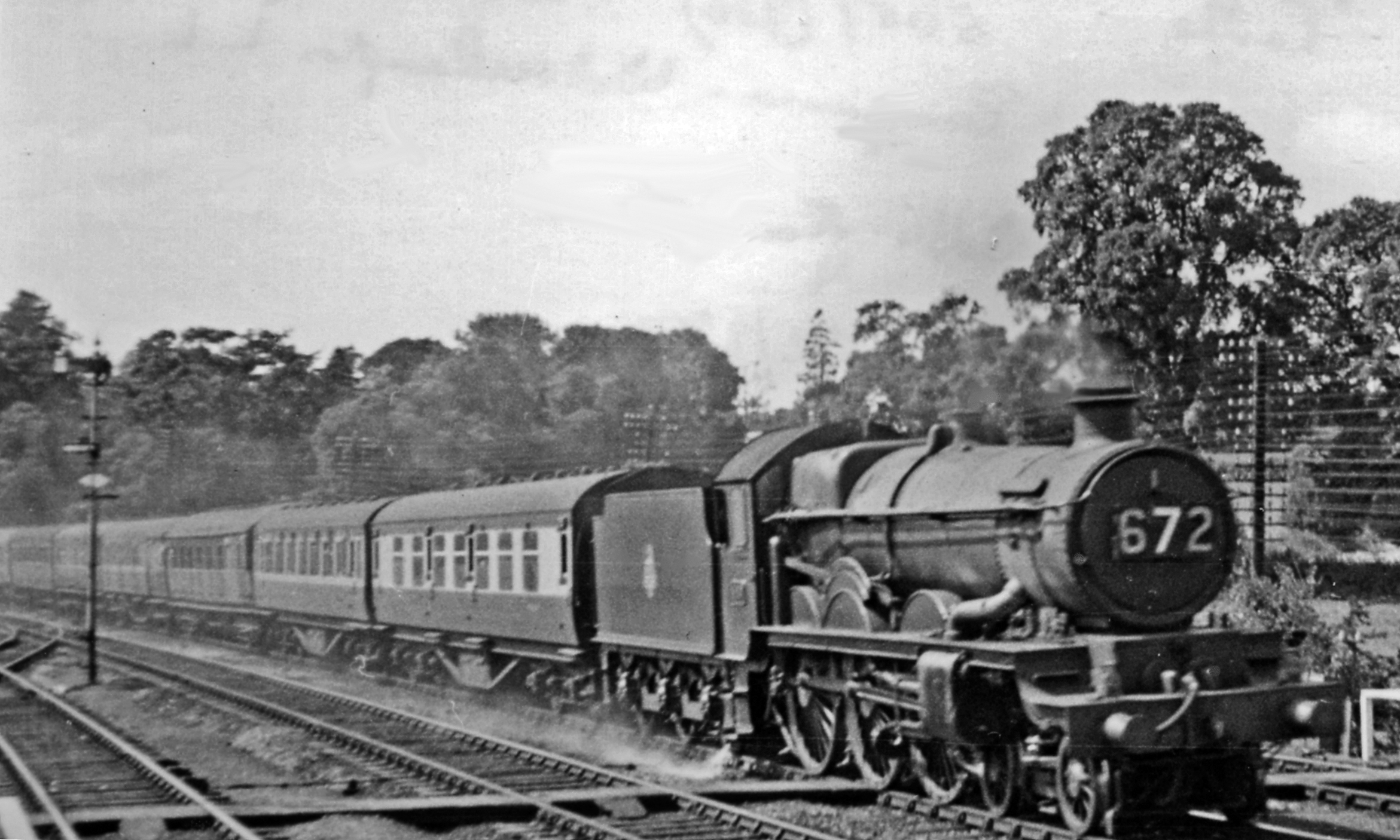 Penzance - Wolverhampton express running down through Wellington (Somerset). Making what speed it can on a Summer Saturday down the long bank from Whiteball Summit, ex-GW collett 'Castle' 4-6-0 No. 5057 'Earl Waldegrave' (built 6/36 as 'Penrice Castle' and renamed in 8/37 was withdrawn in 3/64) heads the 07.30 Penzance - Wolverhampton Low Level (due 17.35).